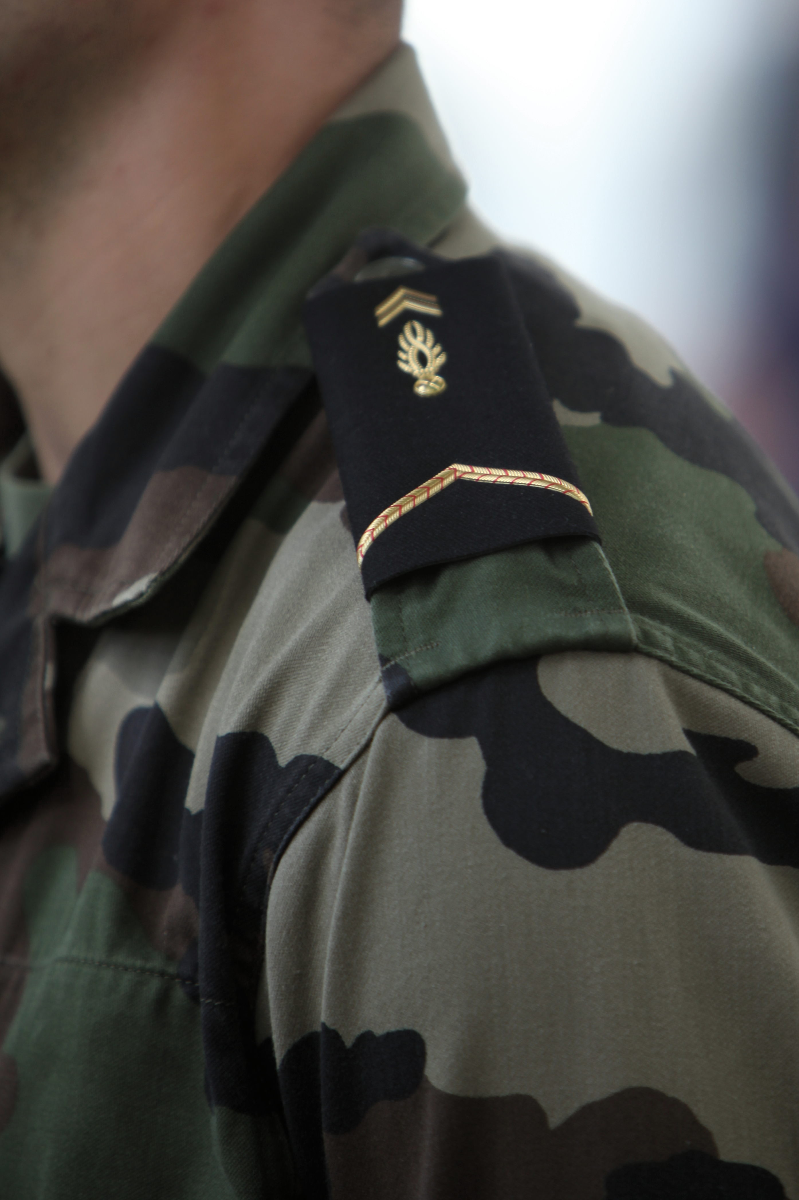 Shoulder strap of a gendarme attending ceremonies of the 14 July 2015 in Brest